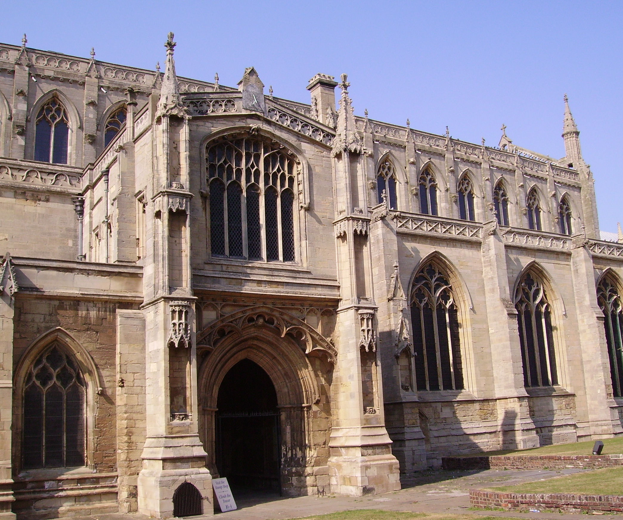 view of Boston Stump in Lincolnshire, United Kingdom